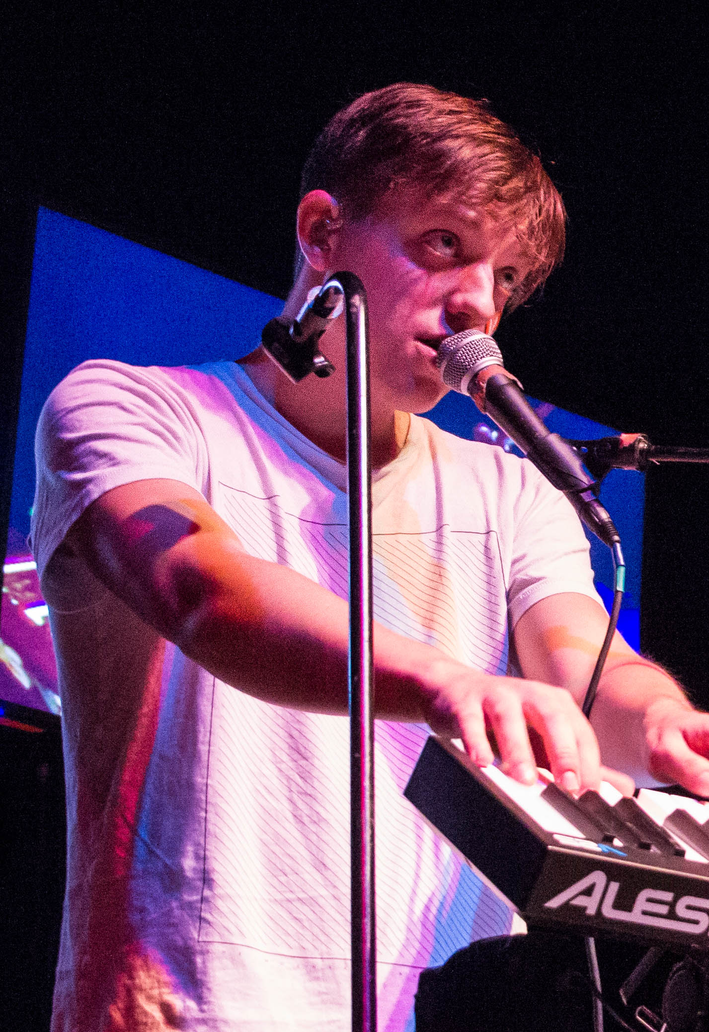 A photo of Robert Delong taken during his performance at CD102.5 Day